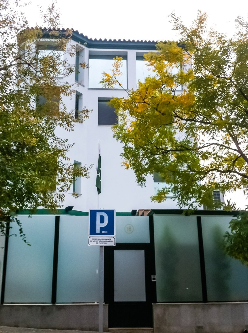 Embassy of Islamic Republic of Pakistan in Madrid